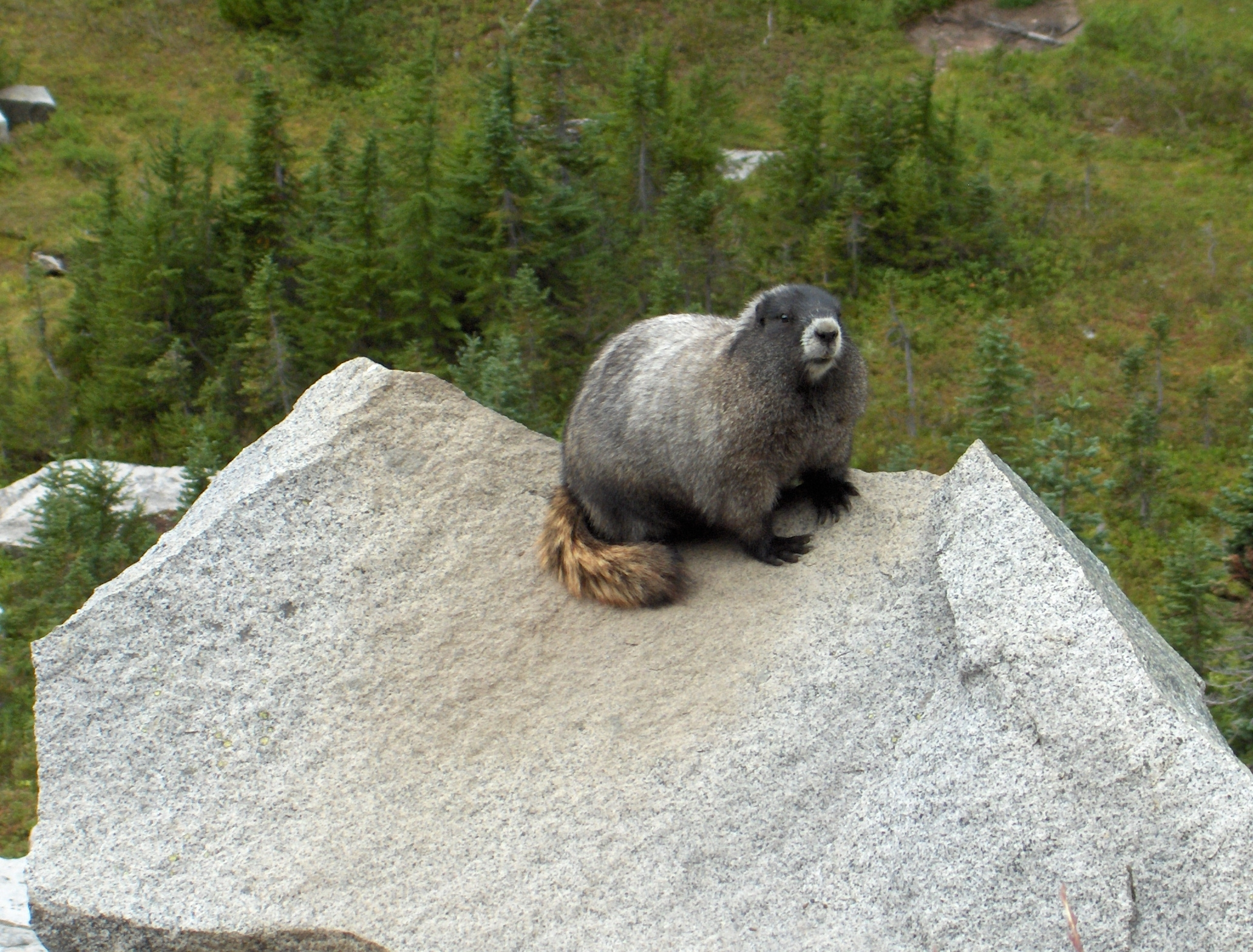 Hoary Marmot in Mount Rainier National Park. Picture taken by my friend and released under GFDL. Category:Images of marmots